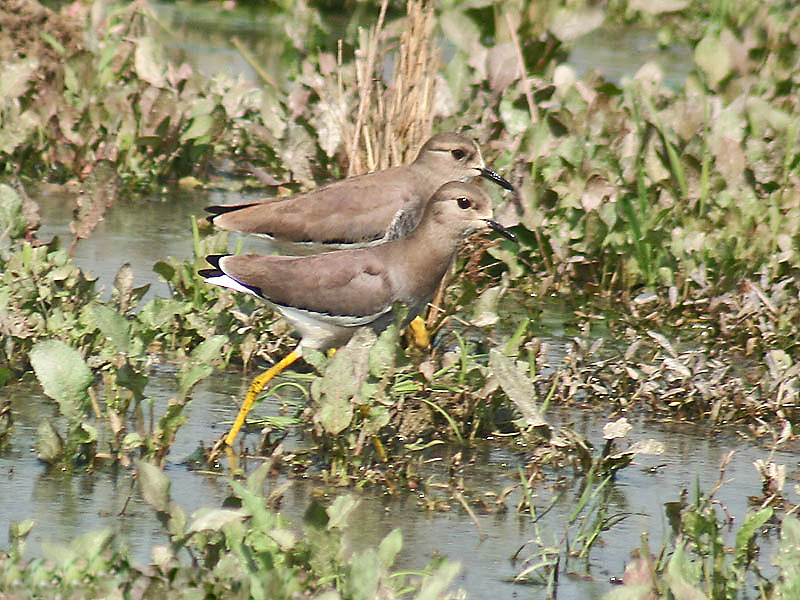 White-tailed Lapwing Vanellus leucurus at Hodal in Faridabad District of Haryana, India.